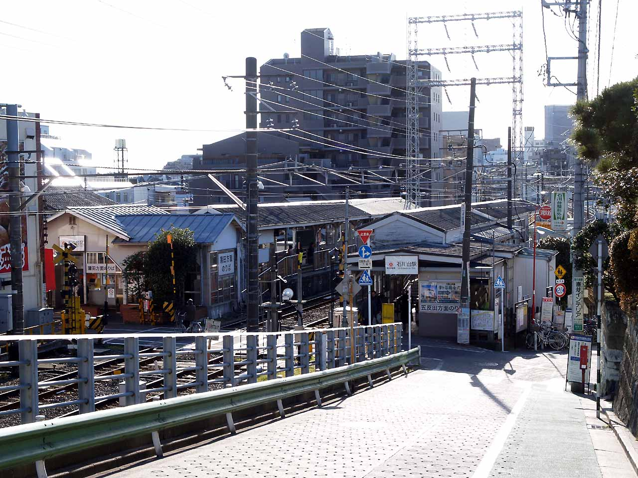 Tokyu Ikegami Line Ishikawadai station from east.